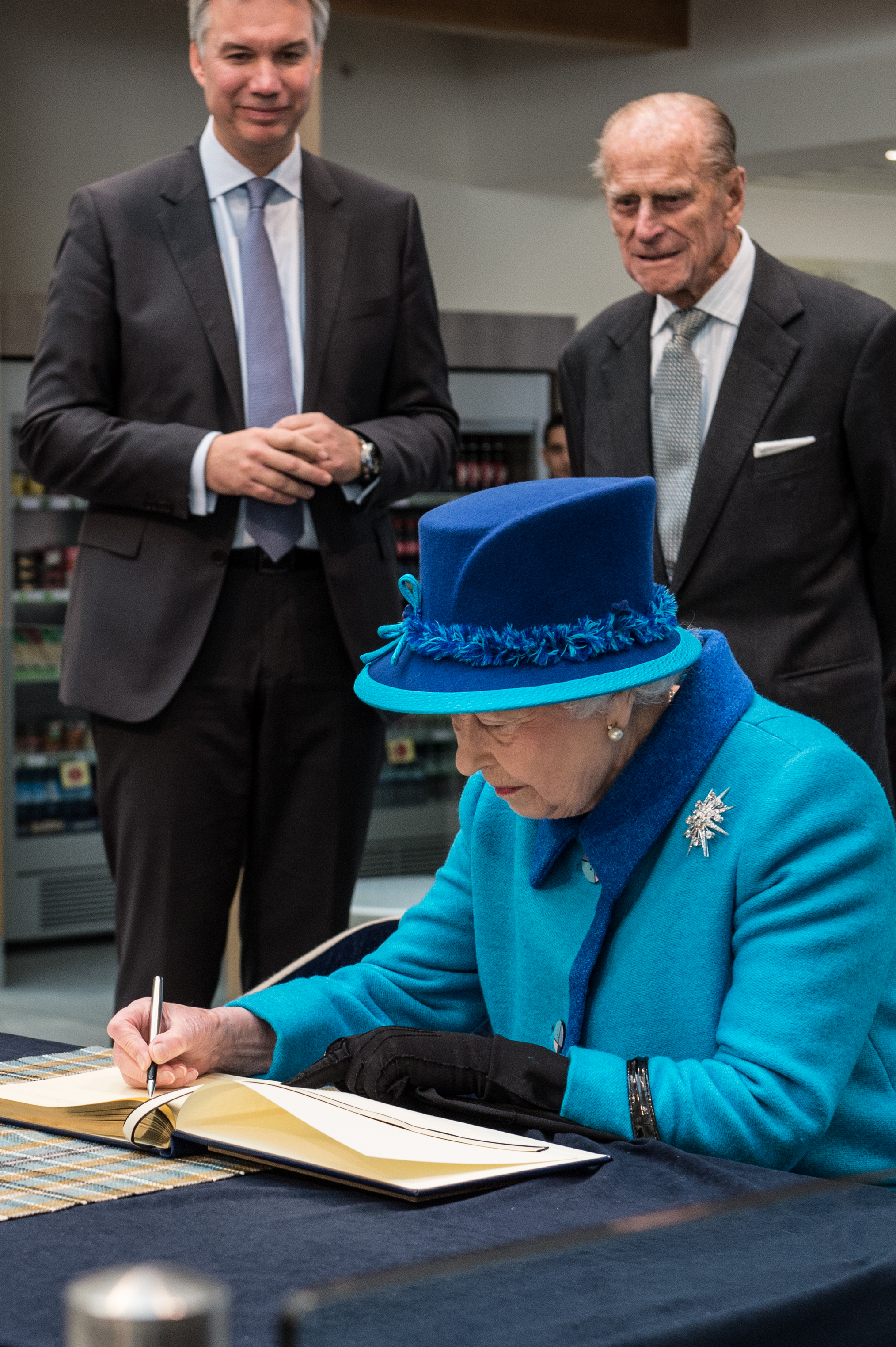 Elizabeth II signing a guestbook in Manchester